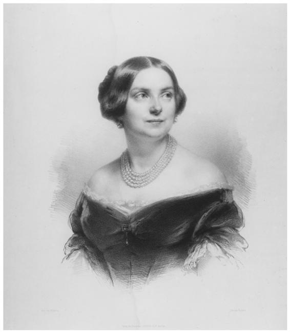 Henriette Sontag (1806-1854) was a German coloratura soprano